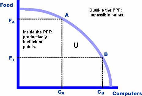 a cleaned-up version of the PPF graph from "production possibilities frontier" entry.